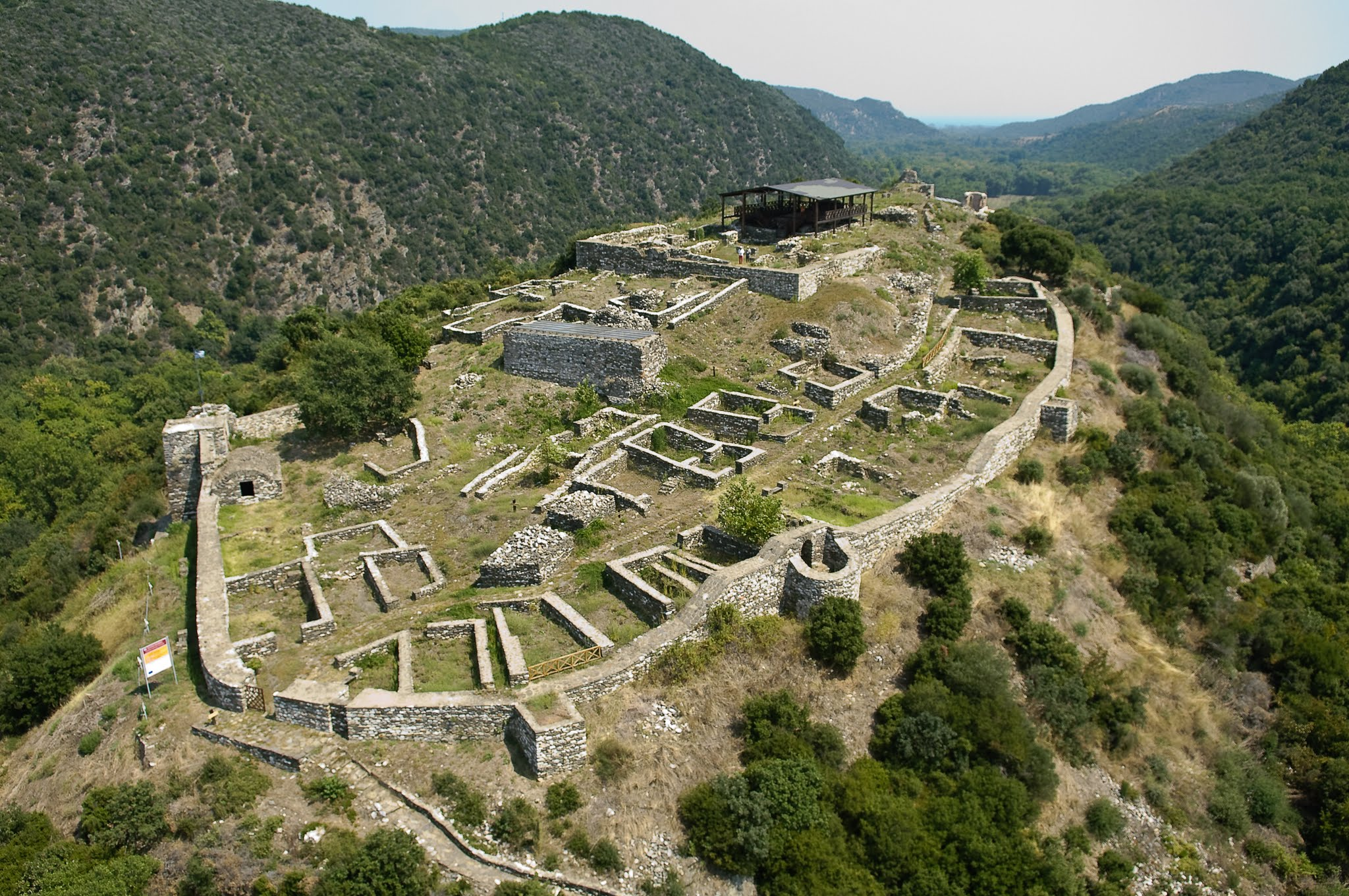 This is a photography of Natura 2000 protected area with ID GR1220003